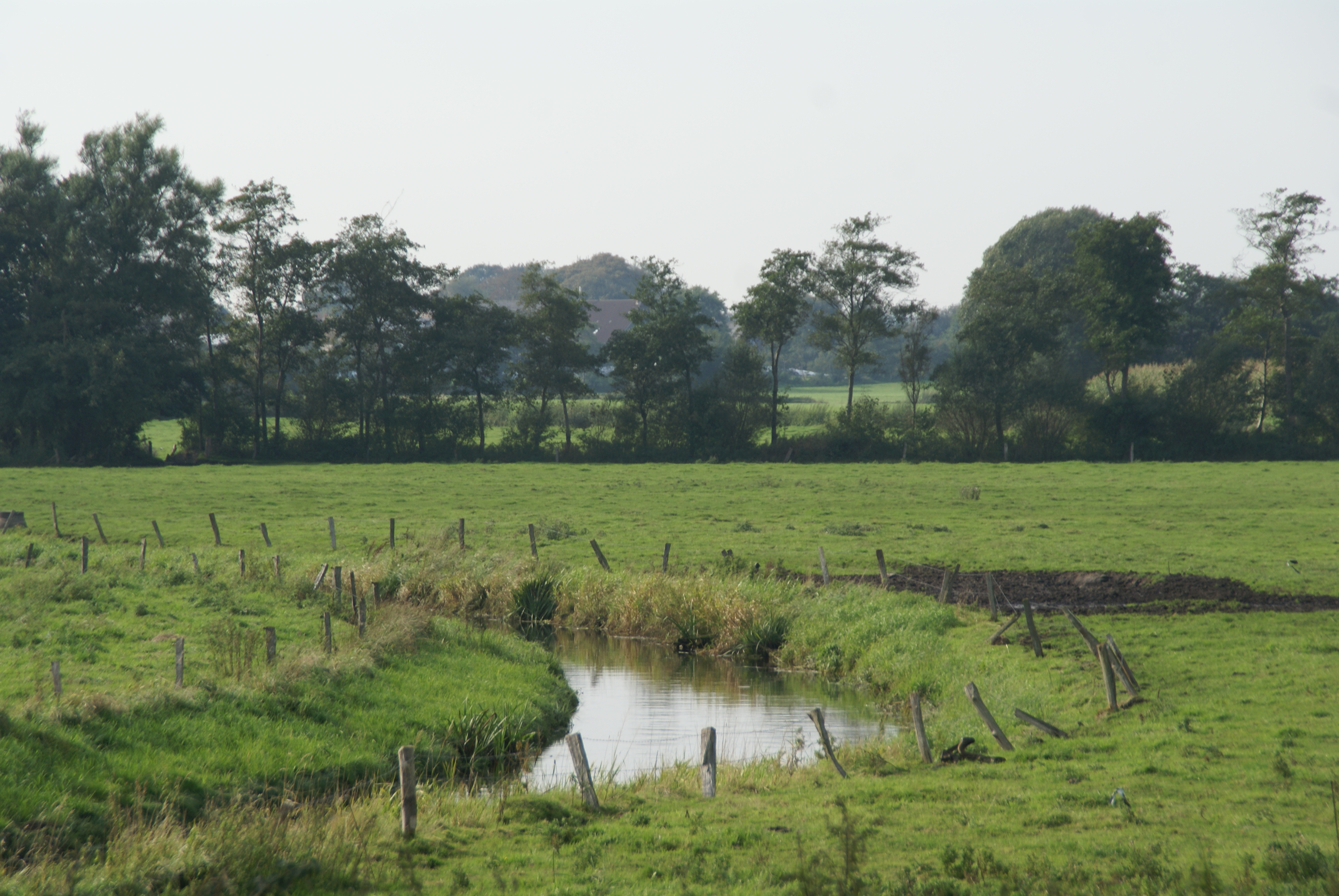 Viöl (Germany): The riverArlau